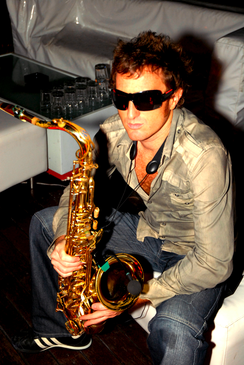 Demon Ritchie and its Tenor Sax